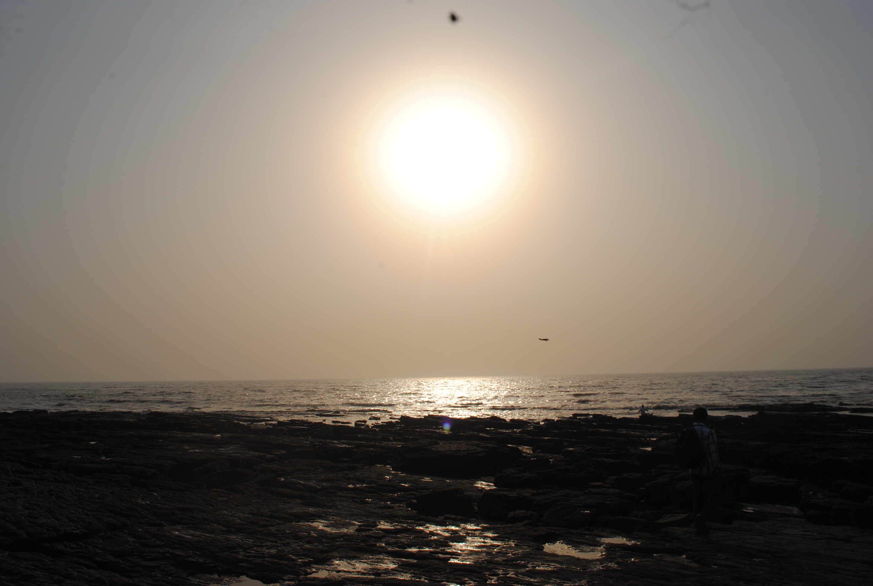 Clicked at worli sea face, during sunset.